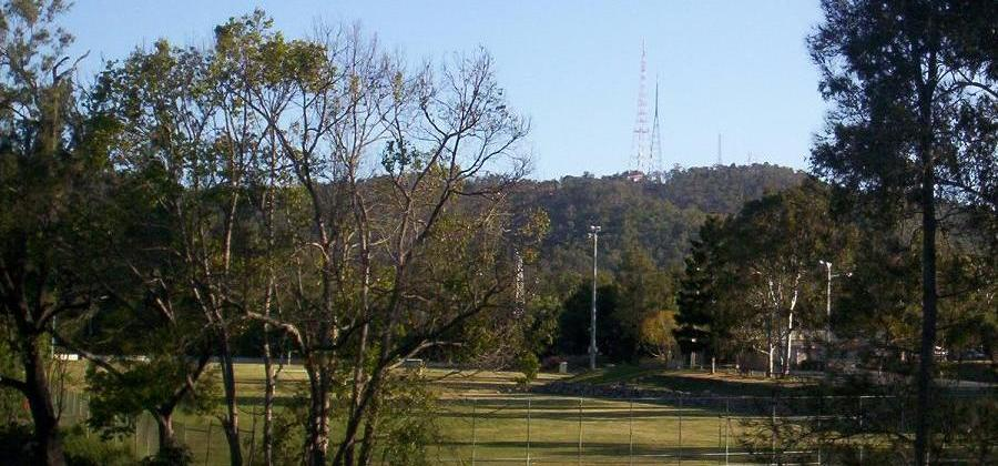 Mt Coot-tha and the television towers - as seen from The Gap, Brisbane ( this photograph was taken by Figaro )